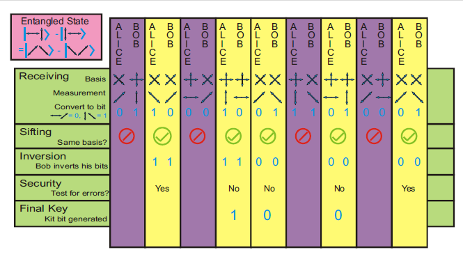 bbm92 work explanations. This file rerpesentes main facts of how bbm92 protocol works